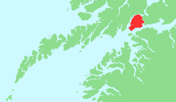 Locator map of Tjeldøya, Nordland, Norway